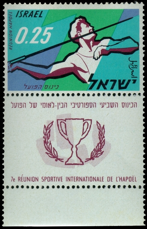 Israeli postal stamp commemorating 7th Sports Reunion of International Hapoel Society - 0.25 Israeli lira